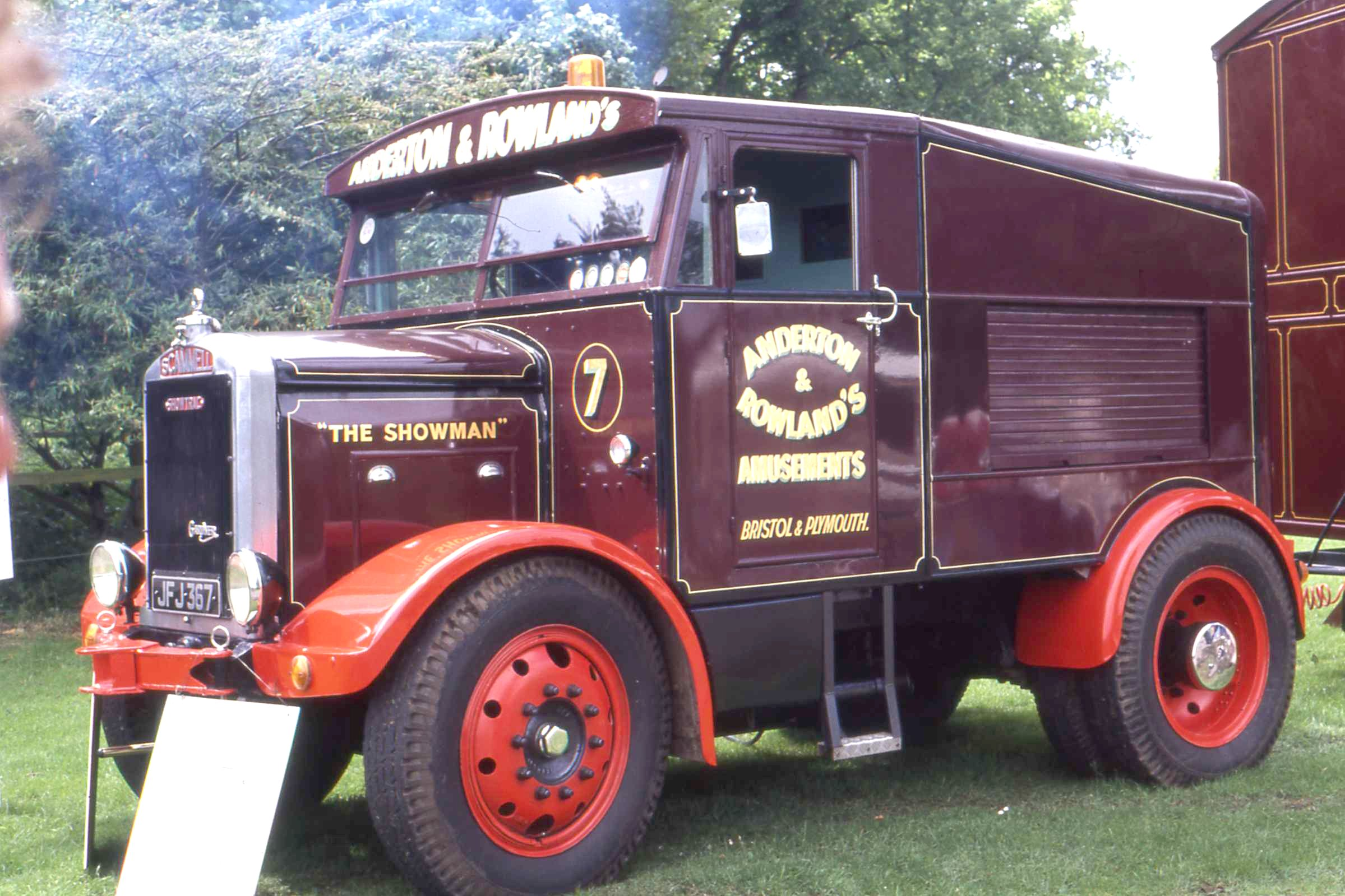 Anderton & Rowland Scammell Showtrac tractor and generator unit. Gardner engined, registration JFJ 367. I suspect no 7, THE SHOWMAN, was already out of the A&R fleet by then,and in preservation as their normal area is the west of England, not Northern Ireland.. More about the Anderton and Rowland Scammell Showtrac fleet here. The site also has information on A&R's ERF and Foden fleets. THis registration dates from 1.7.1979 but the vehicle is much earlier. Still in use 2010. More information on this blog which says that A&R only used the vehicle a short while, passing to a Mrs Deakins. In preservation since 1974.